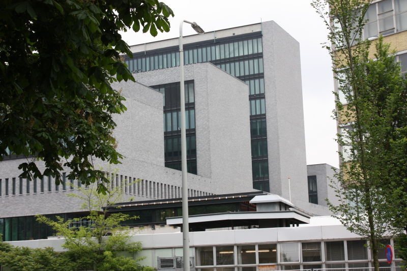 Headquarters of Europol in The Hague, the Netherlands.